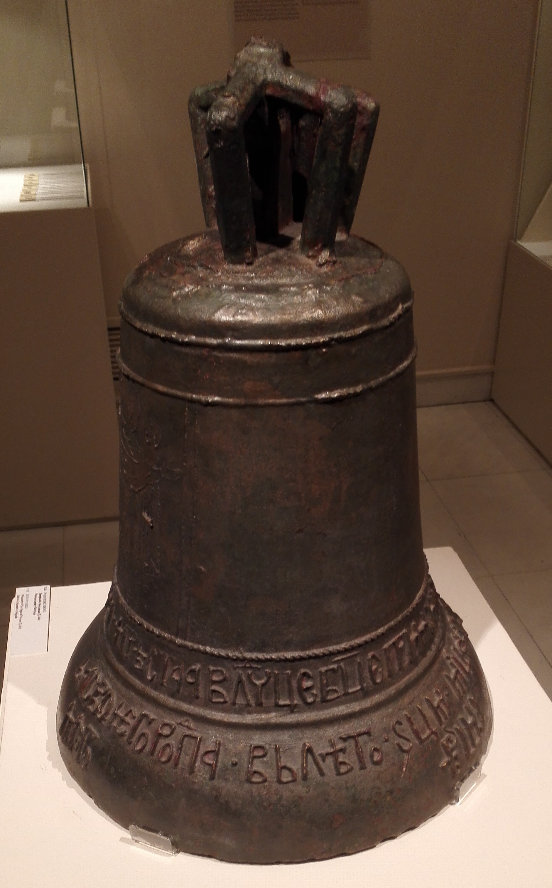 Rodop's bell Monastery of the Virgin of Hvosno (?), 1432. National Museum in Belgrade